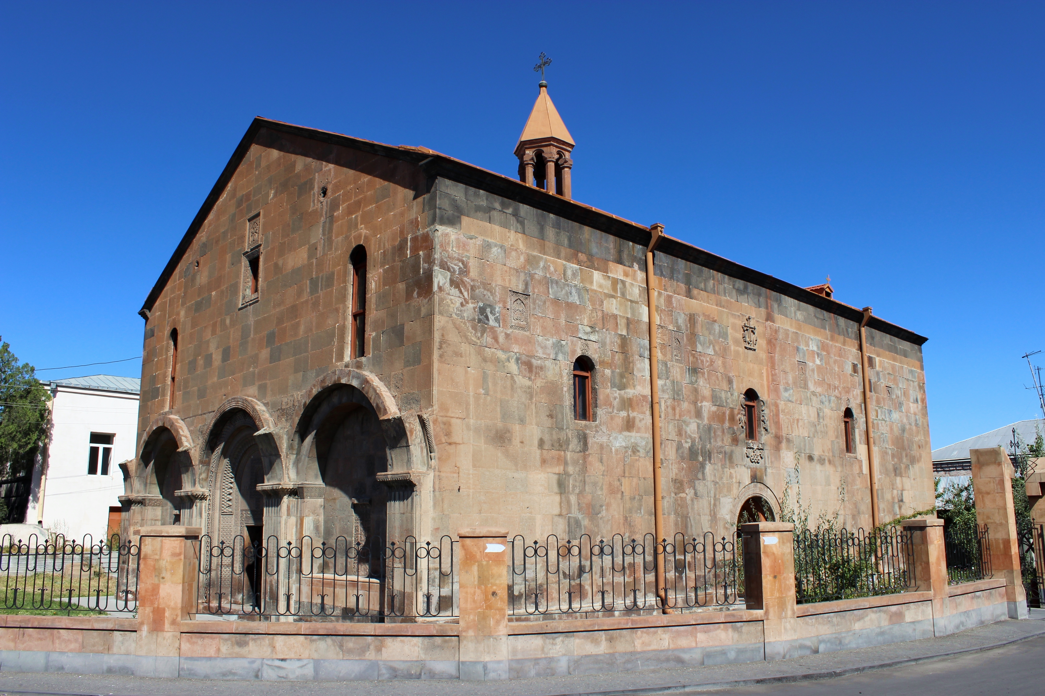 S. Hakob Church of 1679, in Kanaker near Yerevan, Armenia